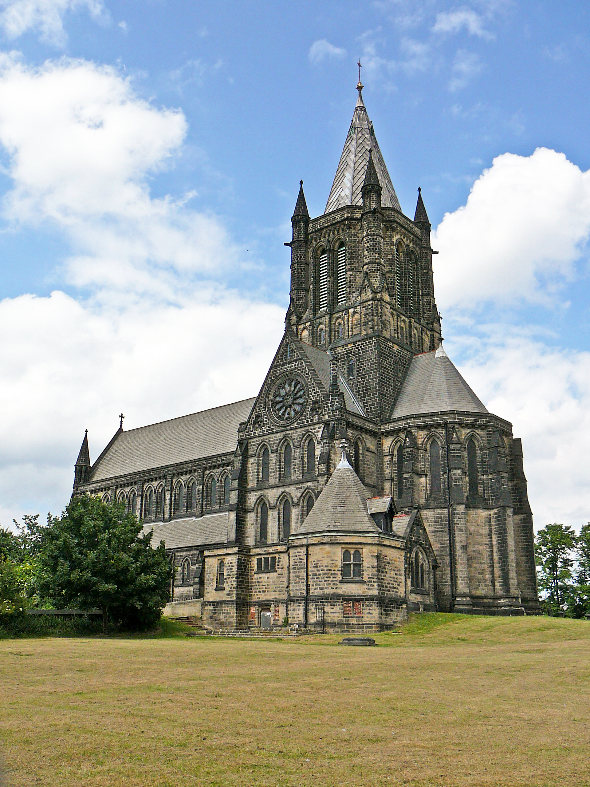 St Bartholomew's Church in Armley, Leeds, West Yorkshire. Taken on Sunday the 3rd of July 2010.